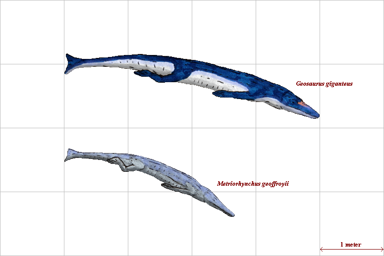 Geosaurus giganteus and Metriorhynchus geoffroyii compared at scale.